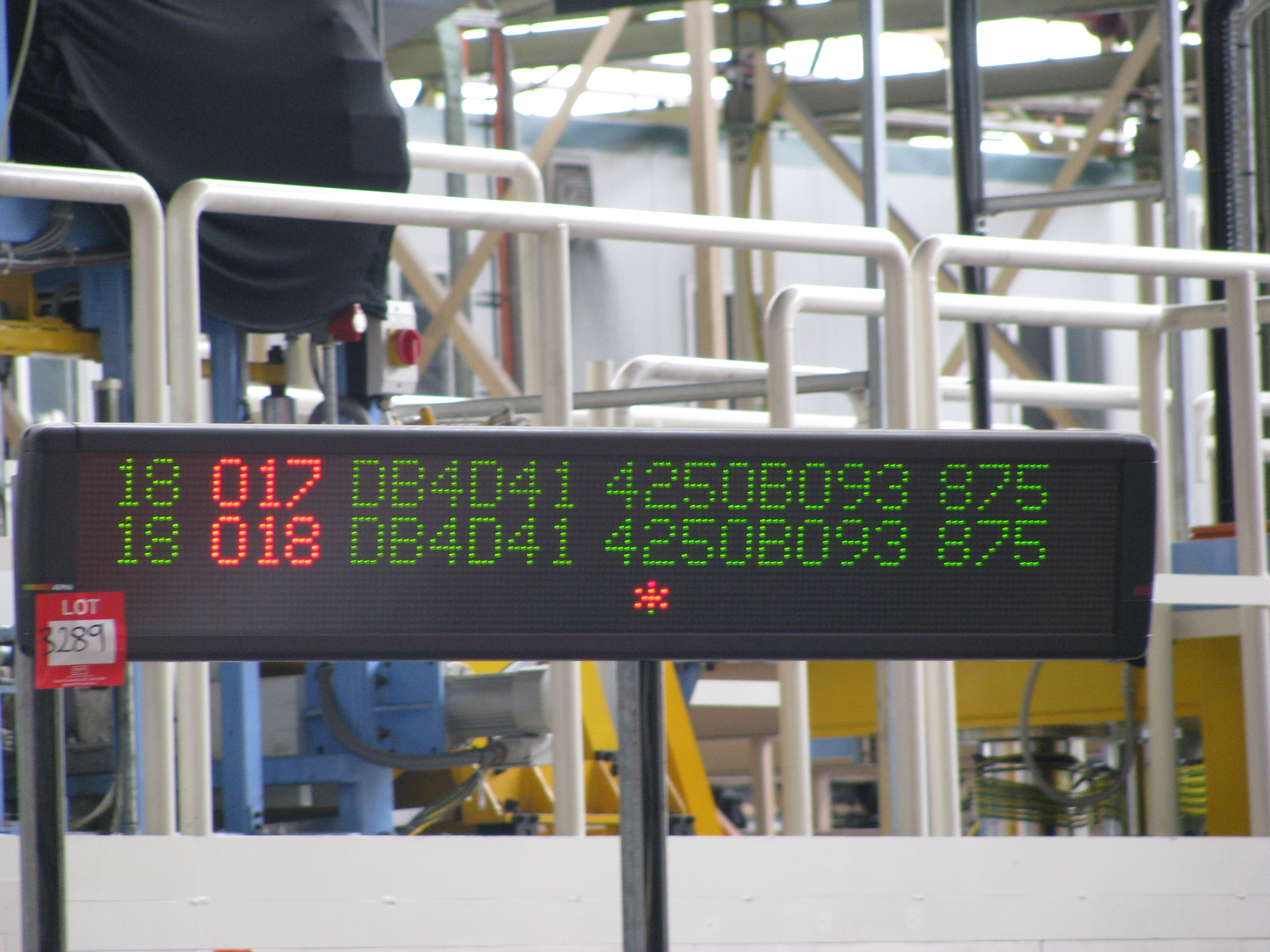 The tyre bay information screen for the Mitsubishi 380, showing details of the last two 380s assembled at Tonsley Park in March 2008.